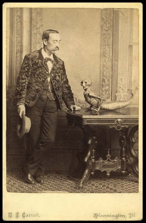 Photo of the Feejee Mermaid